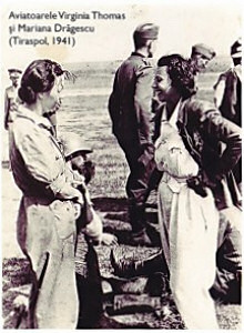 Aviators Virginia Thomas and Mariana Dragescu (Tiraspol, 1941)